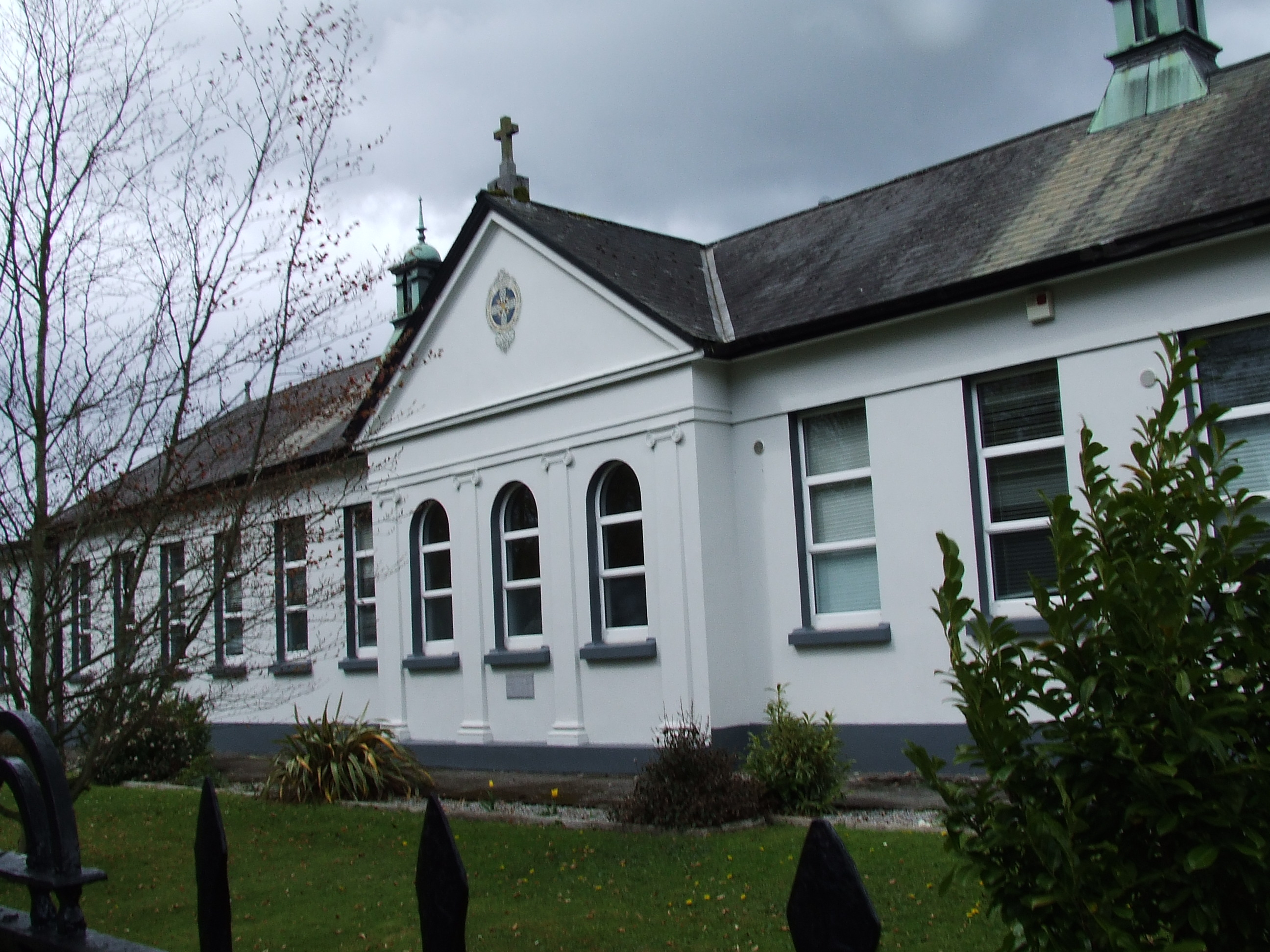 Viewed from the Church Avenue entrance, the original core building of the secondary school of the Congregation of the Christian Brothers, Templemore, Co. Tipperary, April 2010.